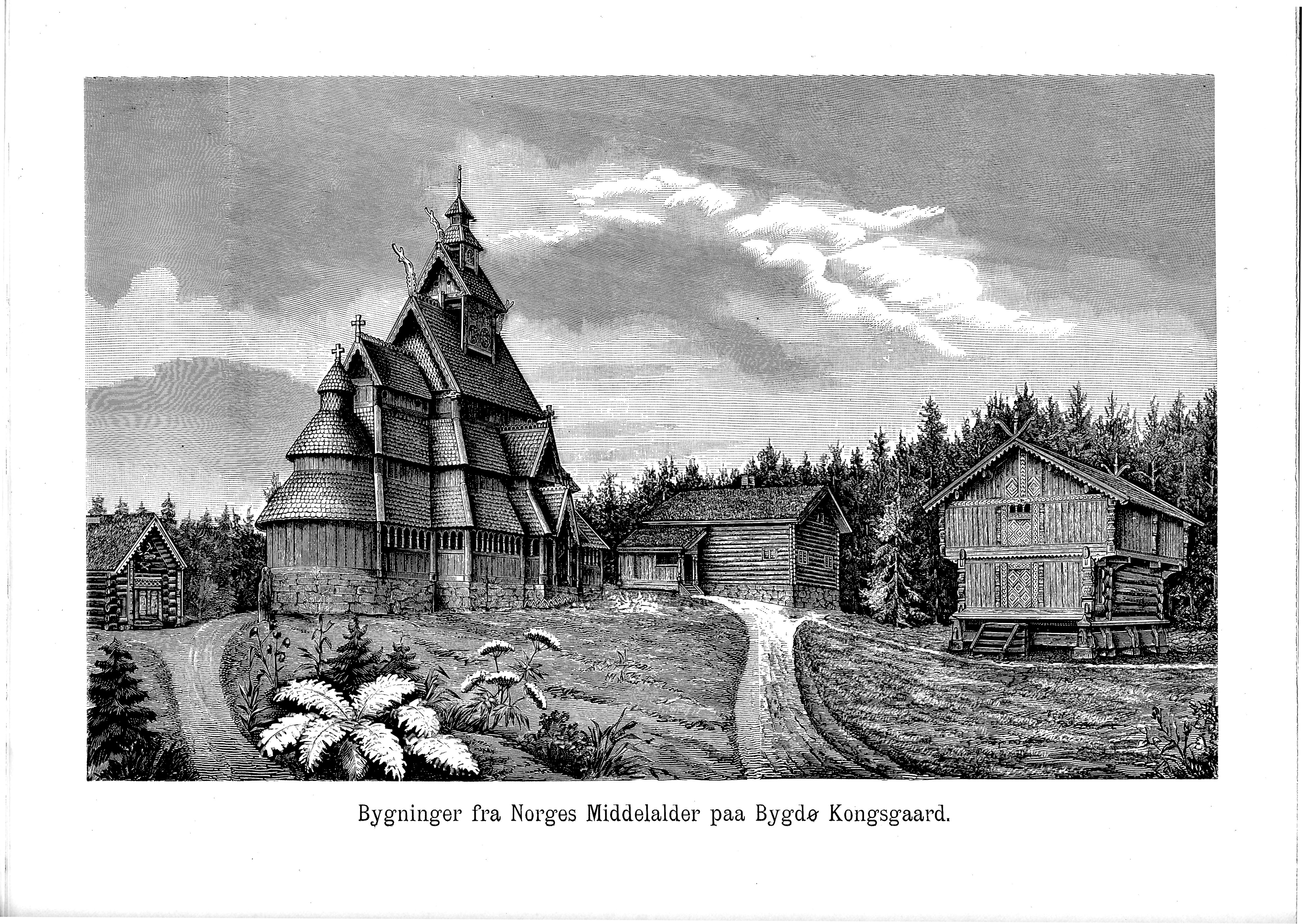 Illustration from: "Bygninger fra Norges Middelalder hvilke Hans Maj. Kong Oscar den anden har ladet flytte til Bygdø Kongsgaard." Christiania, Thronsen & Co.s Bogtrykkeri 1888. P. 29. Аҧсшәа: Xylografi fra: "Bygninger fra Norges Middelalder hvilke Hans Maj. Kong Oscar den anden har ladet flytte til Bygdø Kongsgaard." Christiania, Thronsen & Co.s Bogtrykkeri 1888. S. 29.